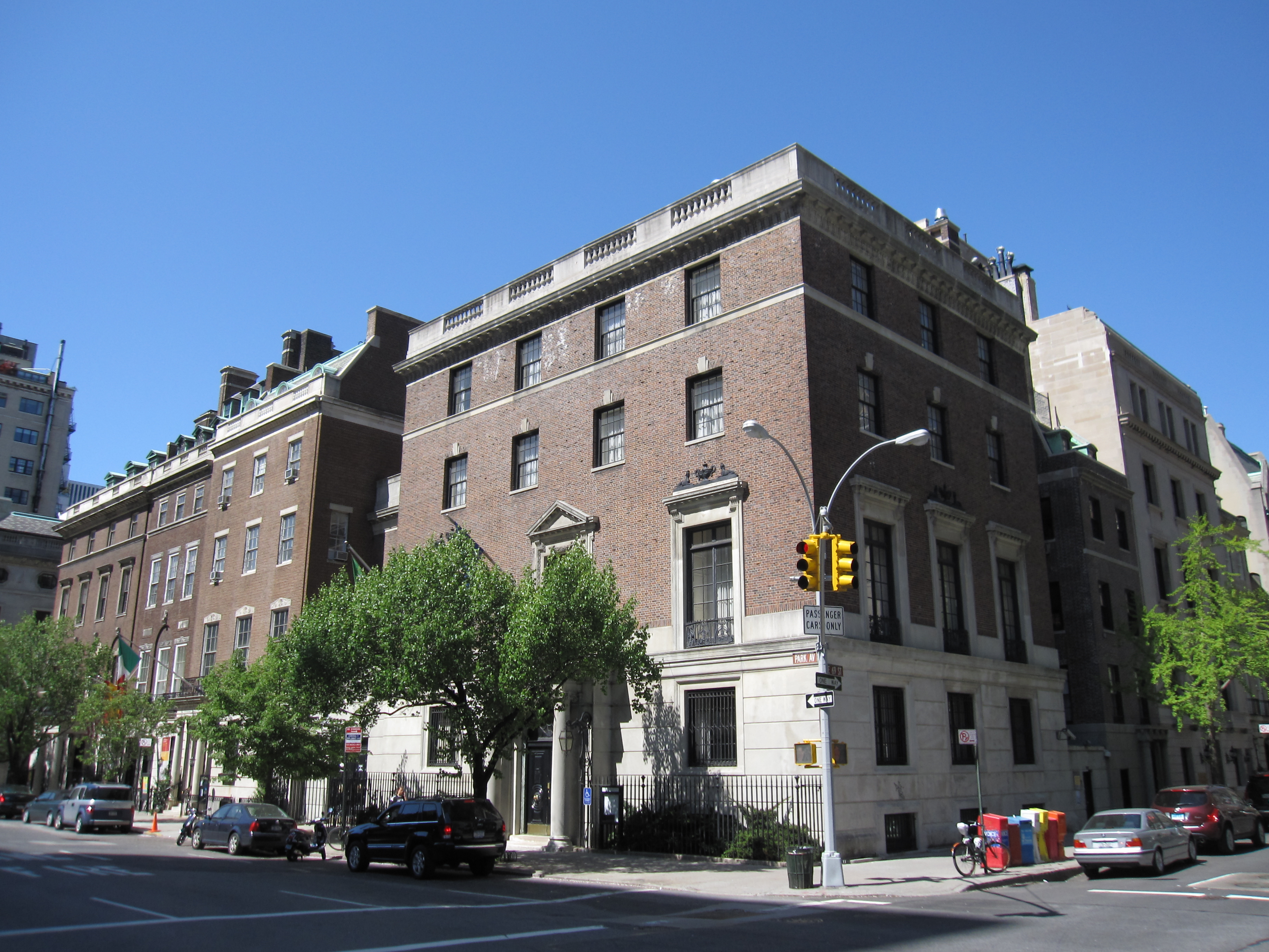 Italian Consulate General, New York